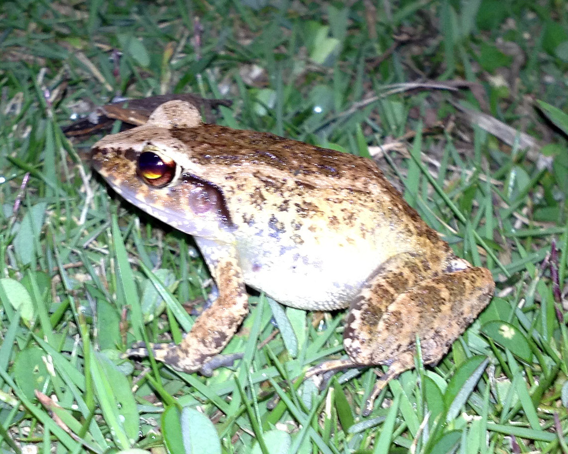 Photograph of a Palau Frog (Platymantis pelewensis) taken in May 2013 by myself in Koror, Palau.